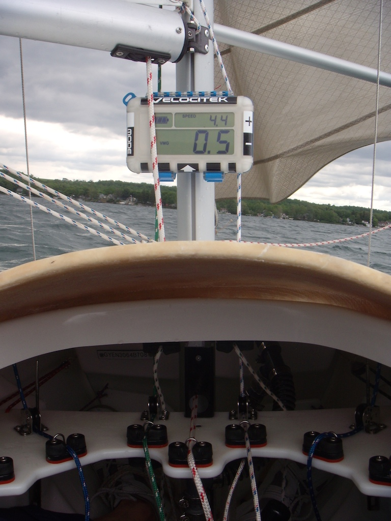 View going downwind in about 5 knots of wind and a light chop today on Canandaigua Lake in New York.